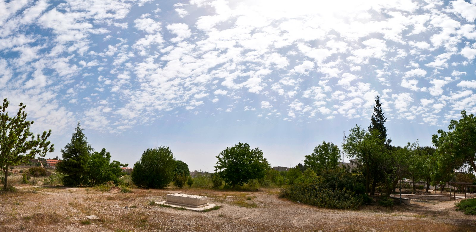 About Baruch Goldstein. panorama. taken from 6 combined photos.